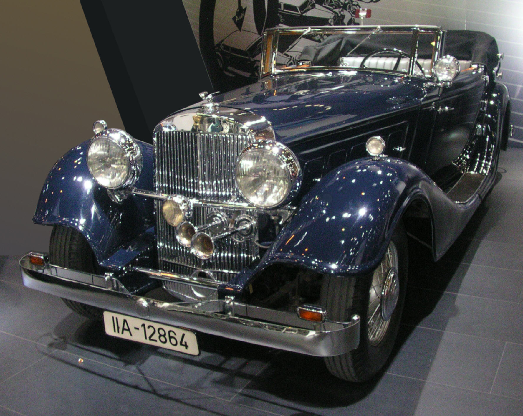 Essen Techno-Classica 2007, Horch 670 Convertible